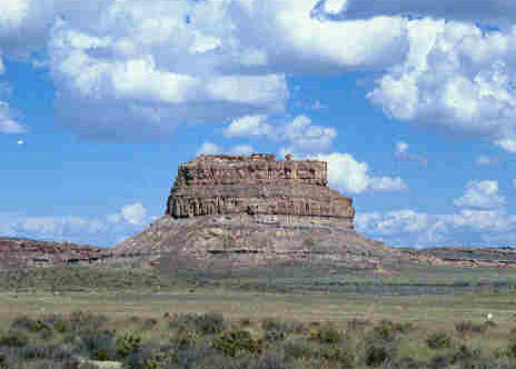 Fajada Butte is seen from the Visitor Center.